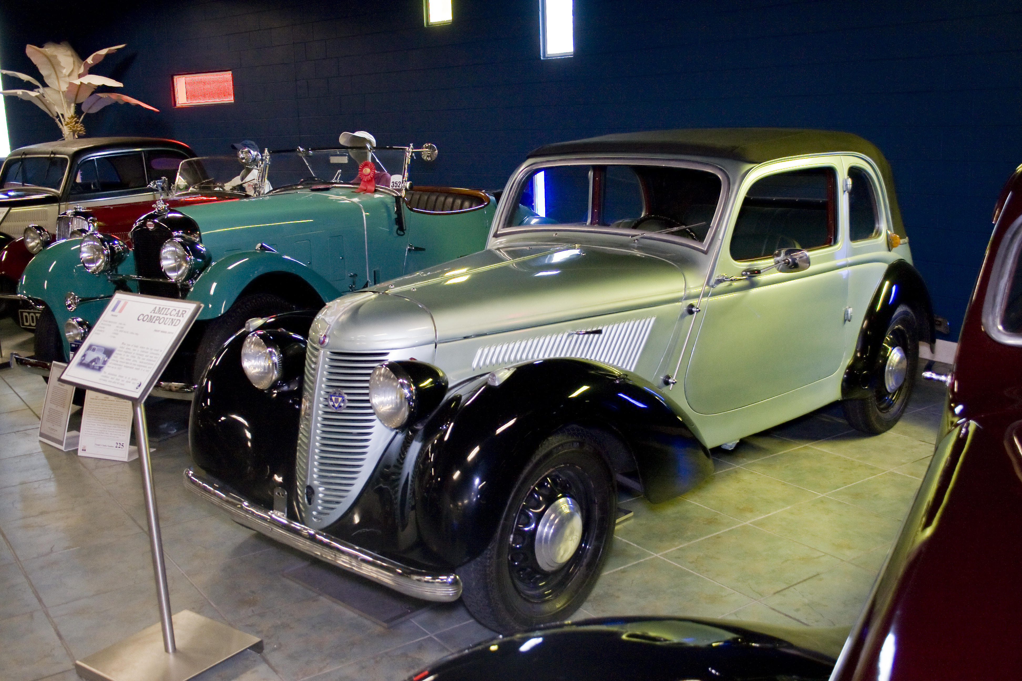 Front wheel drive French car with an aluminum body and frame.